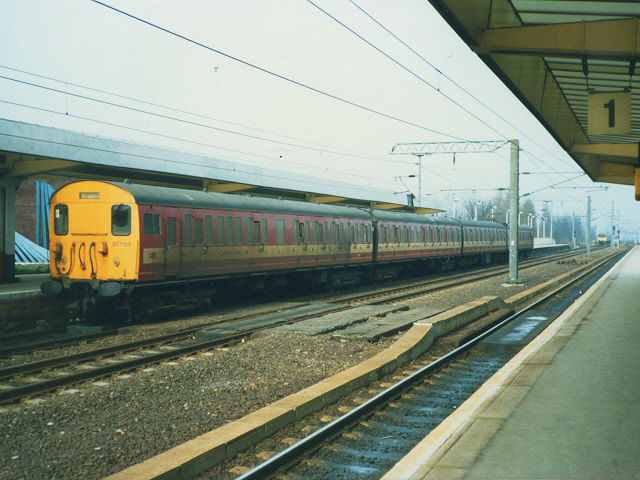 Wakefield Westgate station with a stranger from Essex